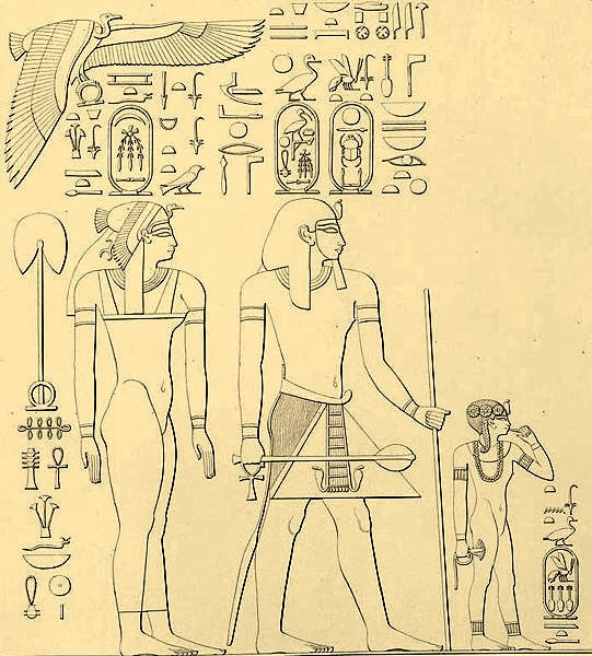 Pharaoh Thutmose I of the 18th dynasty of Ancient Egypt, with his chief wife Queen Ahmose and daughter Neferubity. (The father, mother and sister of Hatshepsut.)